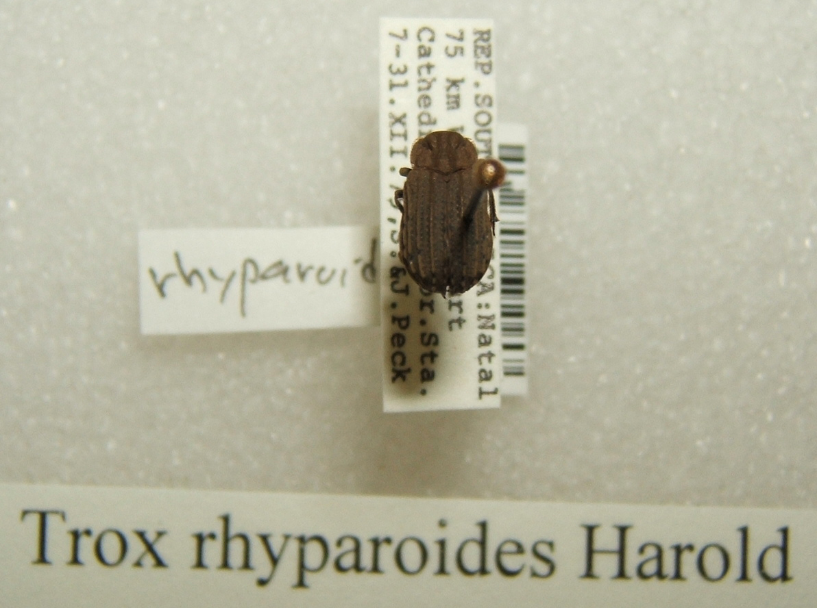 Trox rhyparoides adult taken by Shawn Hanrahan at the Texas A&M University Insect Collection in College Station, Texas. Cropped version: Trox rhyparoides sjh.cropped.jpg